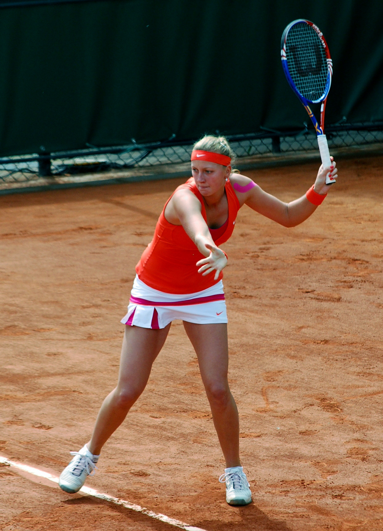 Petra's forehand on Roland Garros 2011